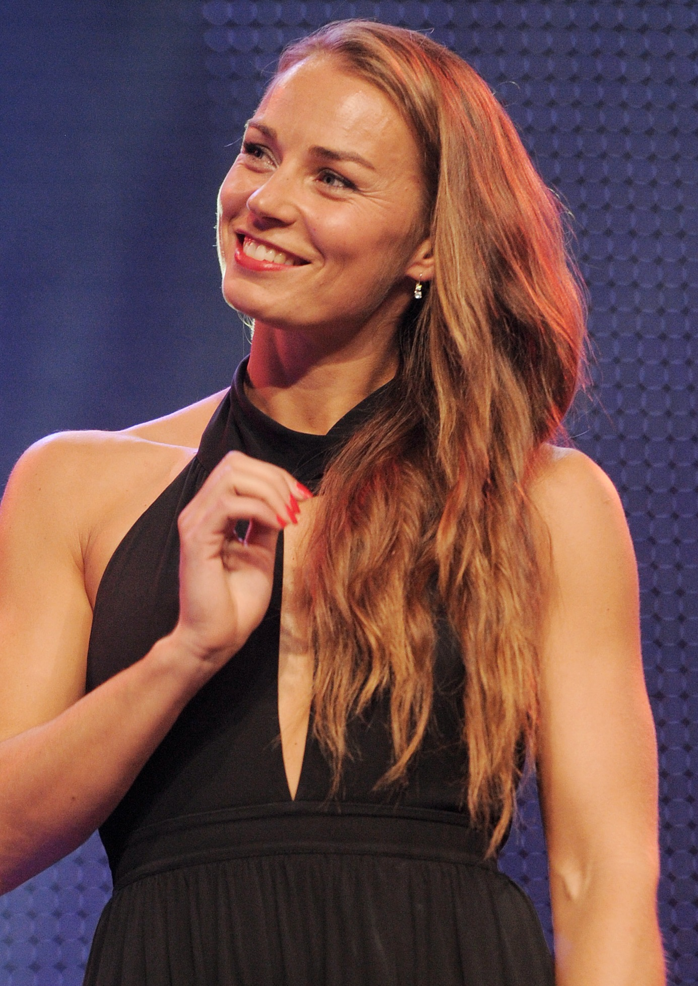 Davos, 03.10.2014. Sport, 12. Internationale Sportnacht Davos 2014. Skiolympiasiegerin Tina Maze. Copyright by: foto-net / Kurt Schorrer